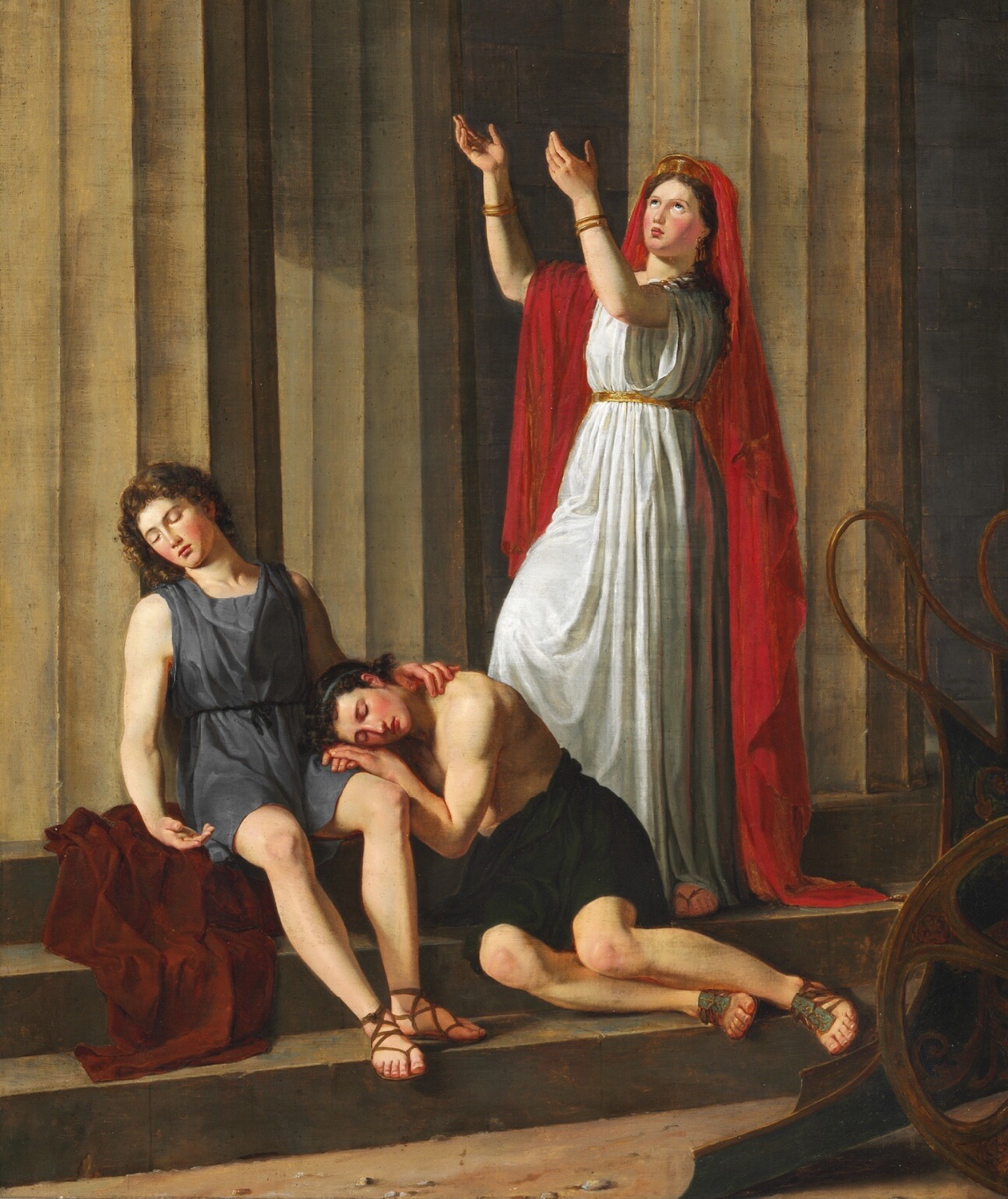 Kleobis and Biton, sons of Cydippe asleep on the steps of the temple. Signed with monogram and dated 1830. Oil on canvas. 97 x 81 cm. Kleobis and Biton were the sons of Cydippe, a priestess of Hera/Juno. After having pulled the cart with their mother to a festival for the goddess for 8.5 km, they fell asleep on the steps of the temple. Proud of the strength and devotion of her sons, Cydippe prayed to Hera to give them the best gift a god could grant a mortal. Hera heard the prayer and bestowed the brothers that they would die in their sleep, hence they never woke up (Herodot 1. 31). Exhibited: Charlottenborg 1830 no. 84. Proveniens: Mrs Dorph (1883). Adam Müller started as a student at the Royal Danish Academy of Fine Arts in Copenhagen in 1821. C. W. Eckersberg writes in his diary on 27 September 1825 is (in Danish): "Young Adam Möller began to draw," and from this day on and up to 1836 Müller is a student of Eckersberg. Müller becomes one of Eckersberg's favourite students, and the teacher has very affectionate feelings for the young painter and at Müller's all to early death, Eckersberg writes in his diary on 21 March 1844 (in Danish): "At 9 o'clock this morning, the body of my deceased and beloved Adam Möller was brought to the grave at Assistens Cemetery ...." Eckersberg's influence on Adam Müller is evident in this painting. (Text and picture from Bruun Rasmussen, Denmark)